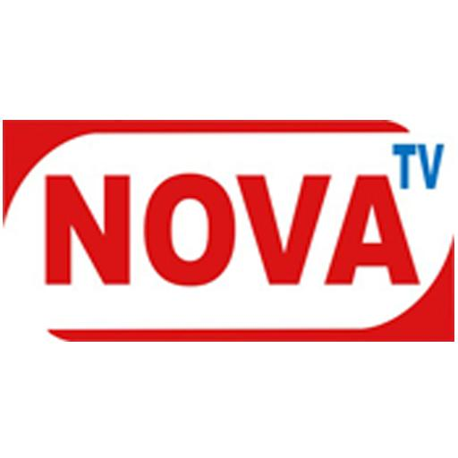 NOVA TV MEDIAS